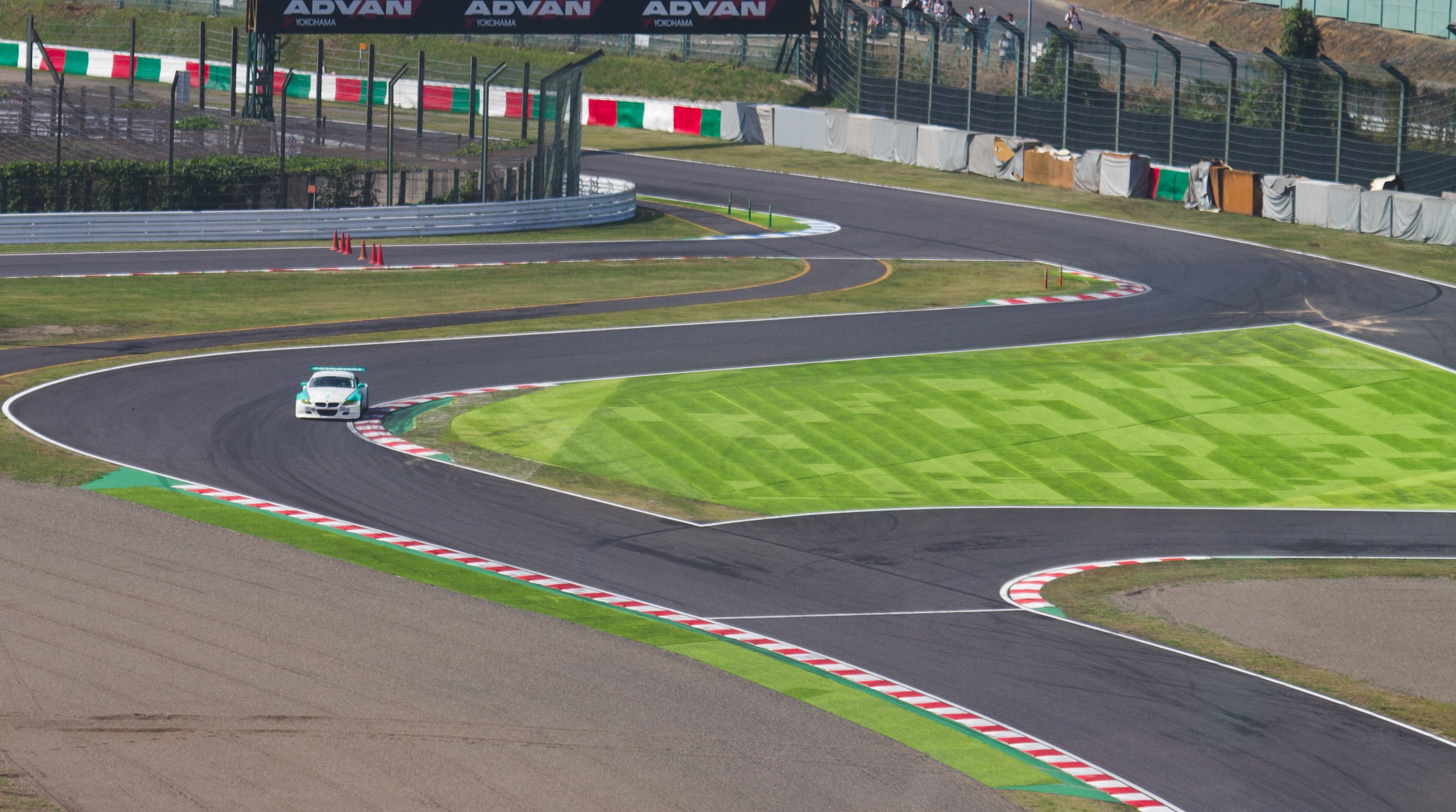 Super Taikyu 2011 Rd.4 Suzuka: BMW Z4 M Coupe (Petronas Syntium Team) in the chicane.